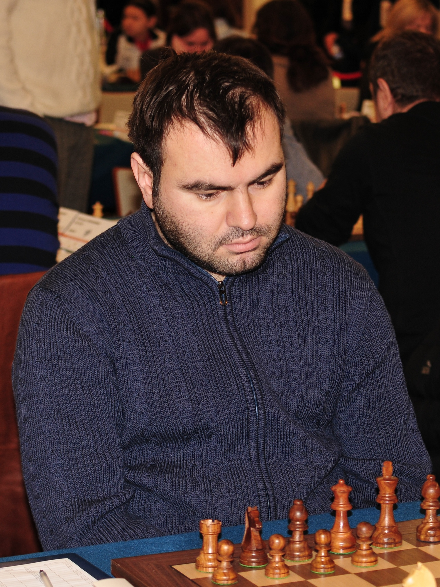 GM Shakhriyar Mamedyarov, European Chess Team Championship Warsaw 2013